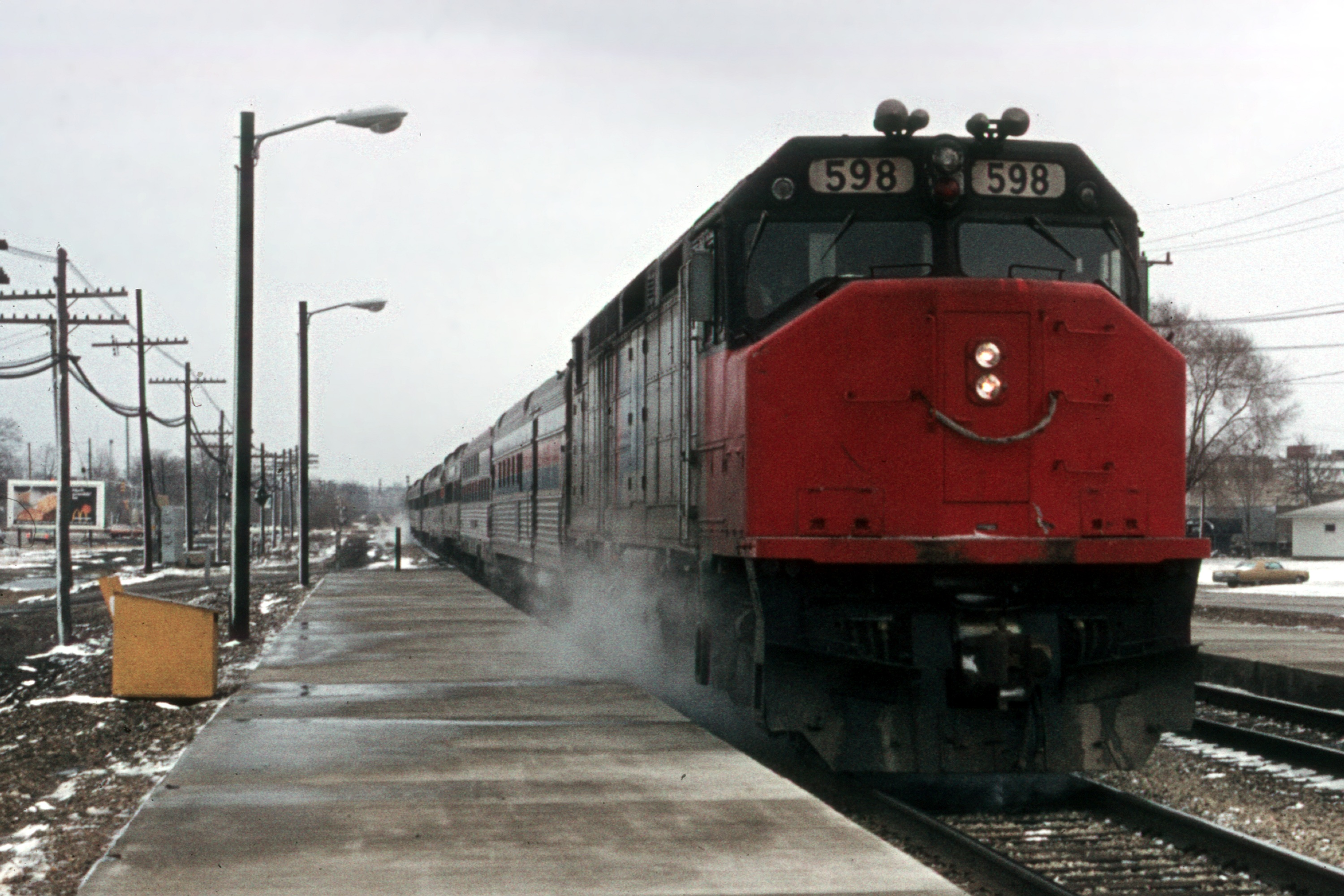 The westbound Lake Shore Limited at South Bend station in February 1976